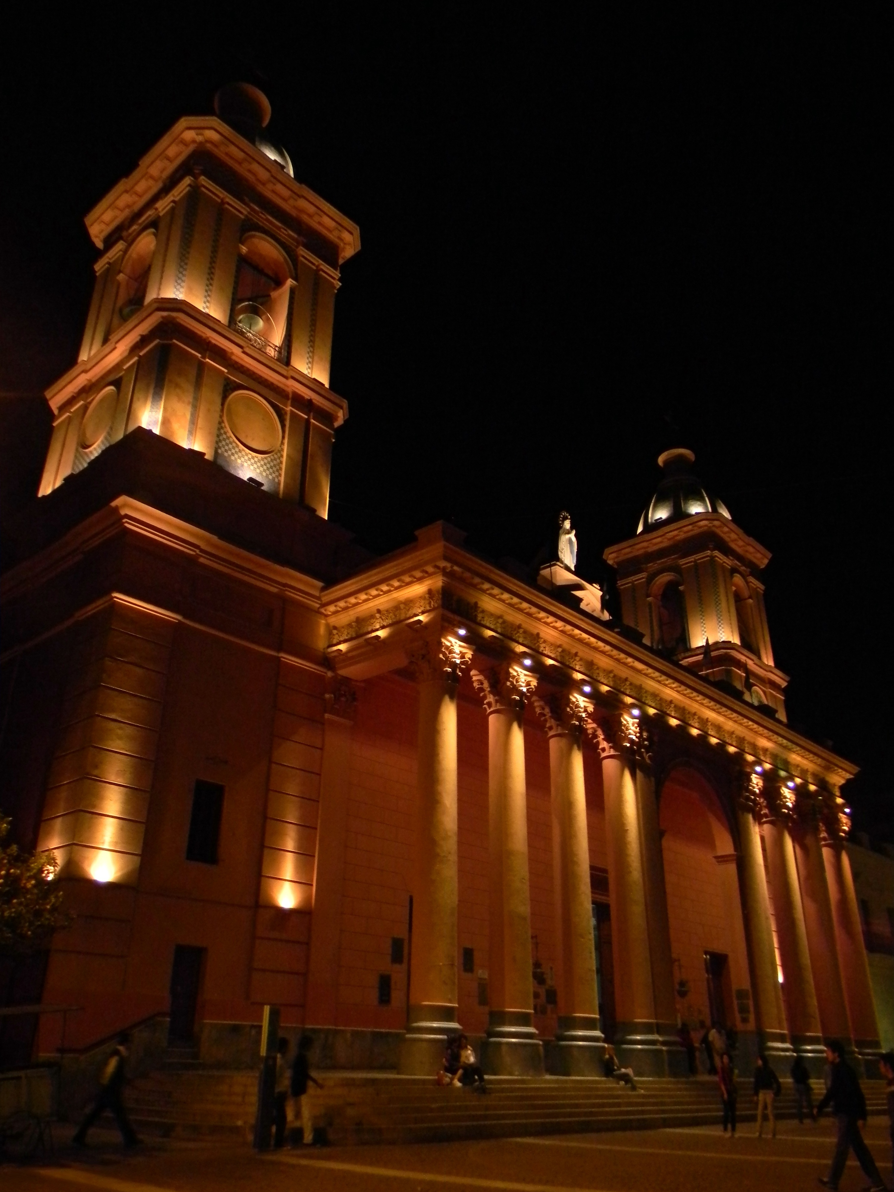 Cathedral of Catamarca.